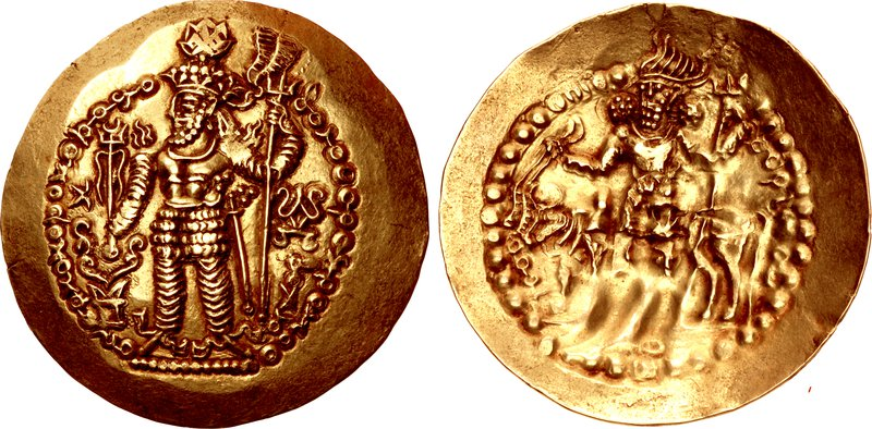 Kushano-Sasanian ruler Vahrām (Bahram) I Balkh mint Struck under Kidarite kings Yasada and Kirada, circa CE 340-345